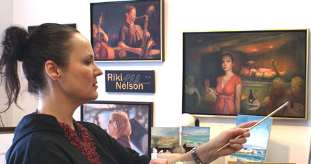 Photograph of Visual Arist Riki R Nelson - Contemporary Realist Oil Painter - during a Painting Performance at Peabody Fine Art Gallery